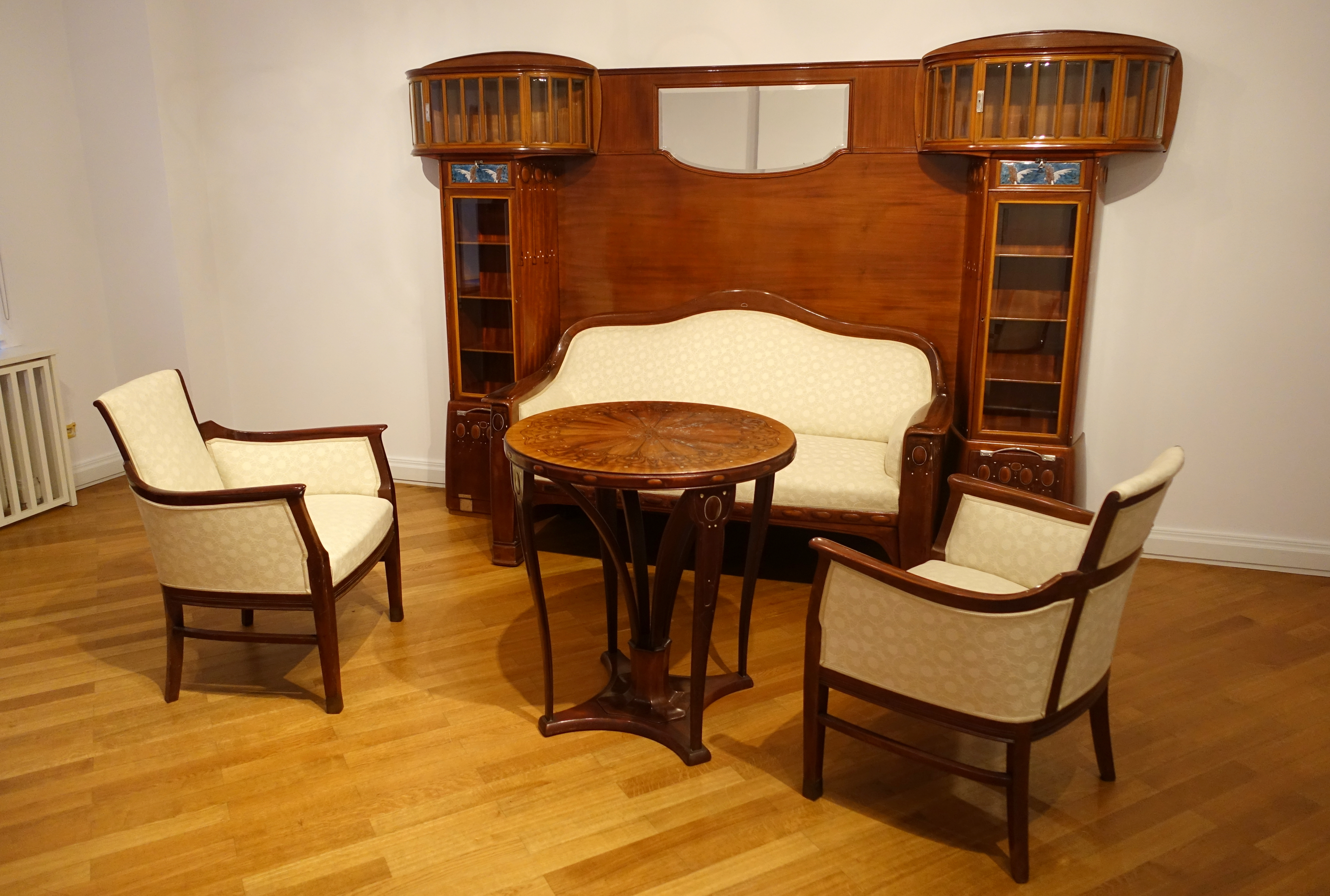 Exhibit in the Bröhan Museum, Berlin, Germany. This work is in the public domain because the artist died more than 70 years ago.